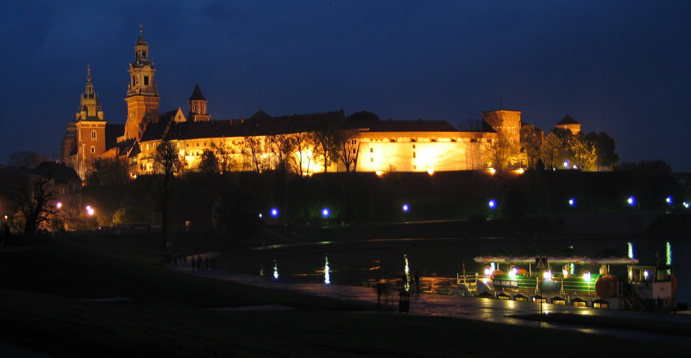 Zamek Wawelski w nocy, The Wawel Castle, Poland by night